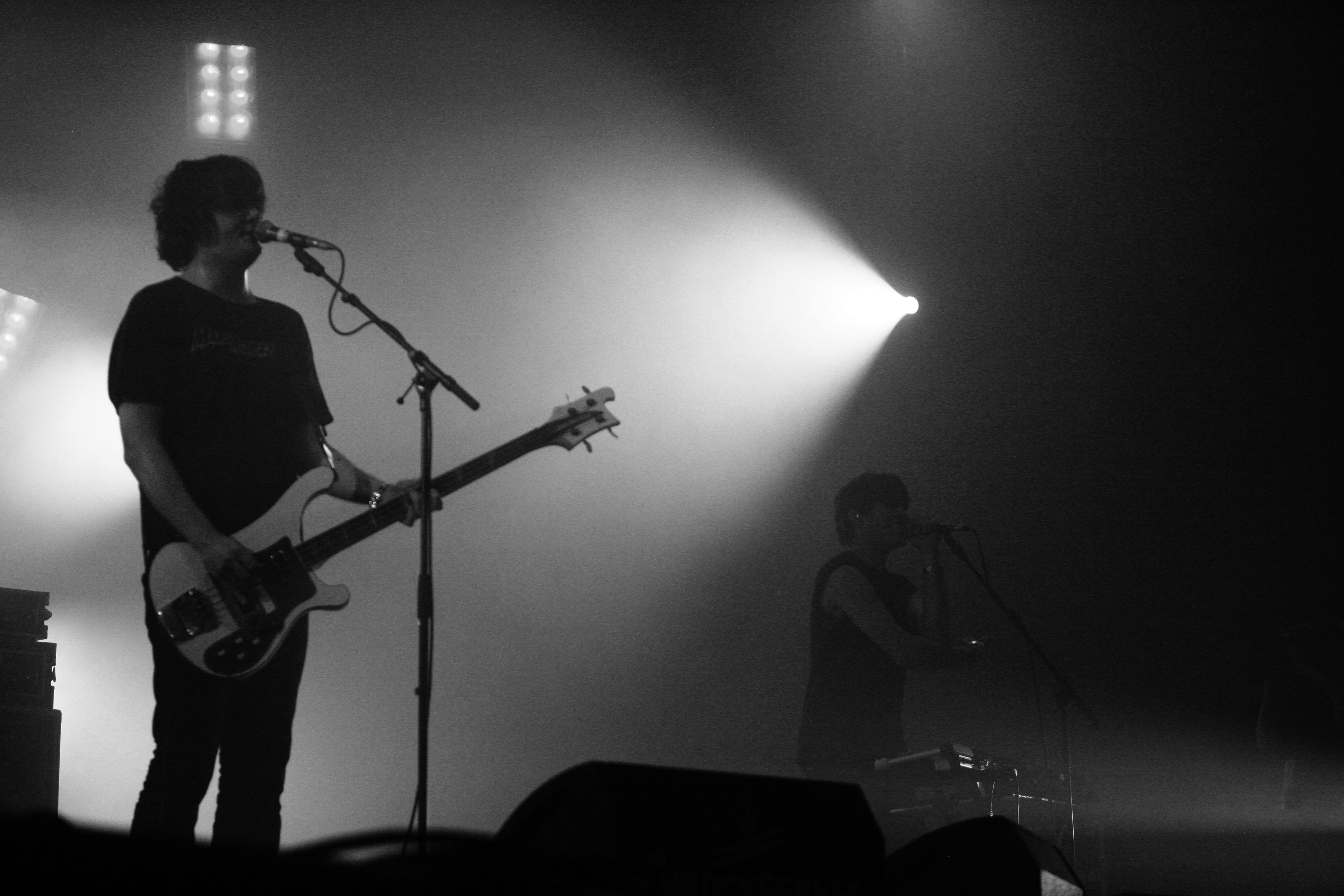 Klaxons at the Eurockéennes of 2007